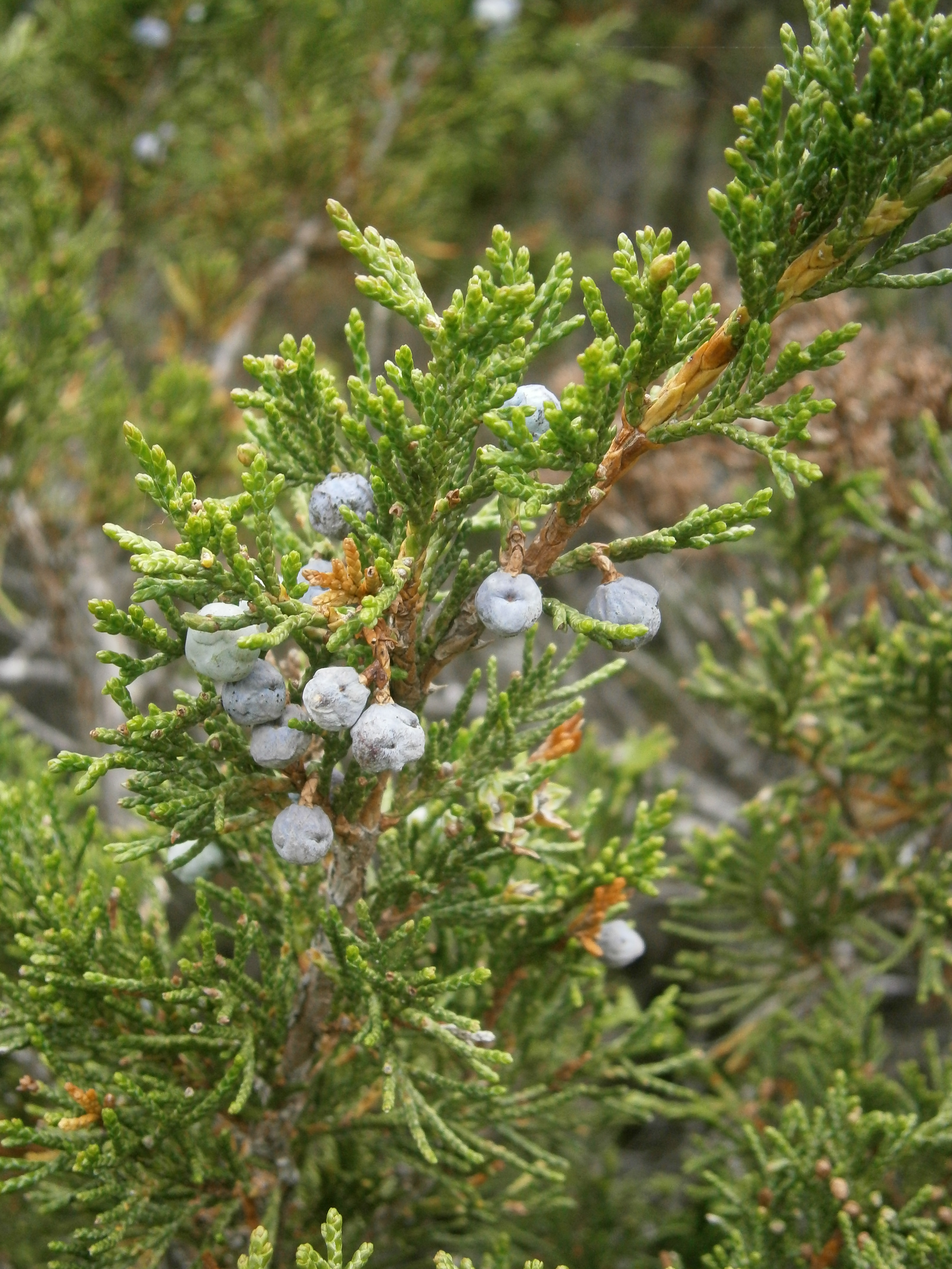 Juniperus sabina in the Parc naturel régional du Queyras, Hautes-Alpes, France